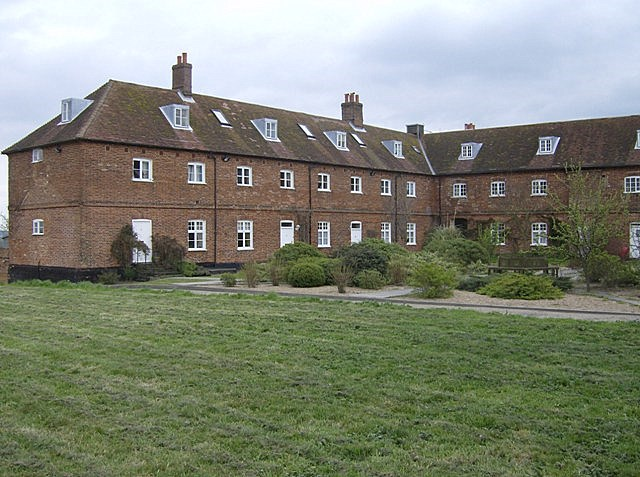 Viewpoint Mews, Shipmeadow This is the former Beccles and Bugay Workhouse, built in 1767. It closed after WW1 and became a hospital. It is now private housing. The main building is built in the shape of an H with two outward-facing courtyards of which this is the north-westerly one.